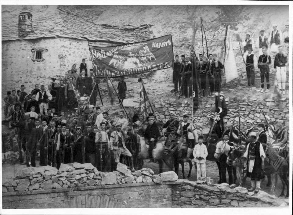 Kostursko revolutionaries 1908 by Manaki